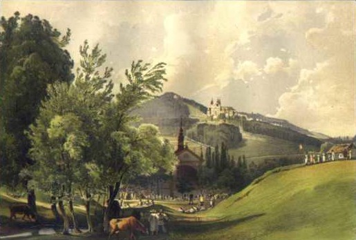 Kalwaria Zebrzydowska on the postcard